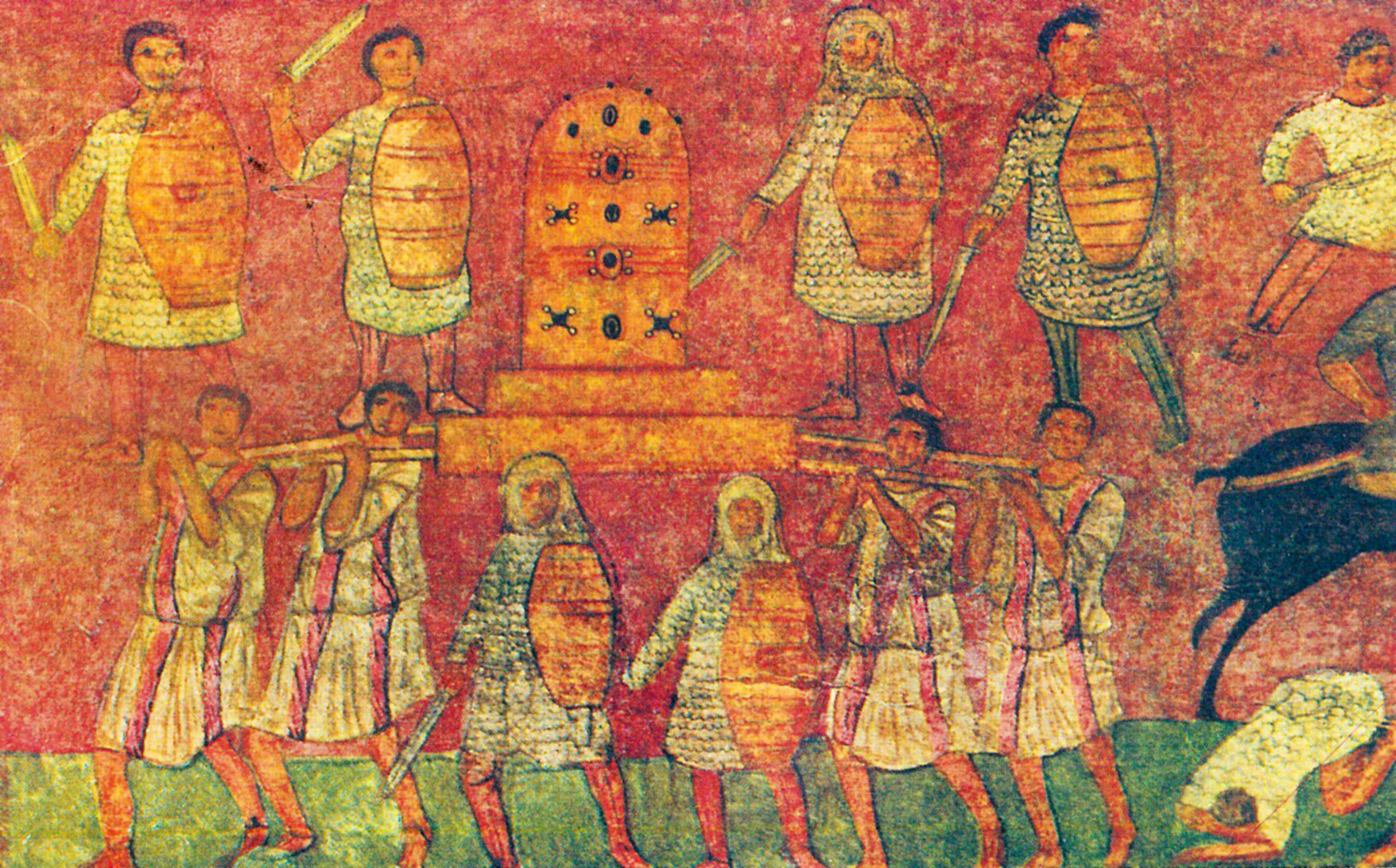 Wall painting in the Dura Europos synagogue, North wall, B register : battle of Eben Ezer, left part — the Ark taken.